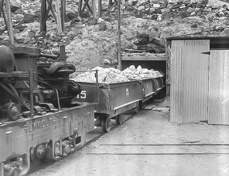 Baby Gauge Railroad at Upper Biddy Tunnel